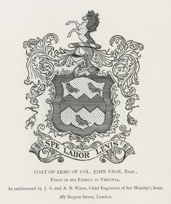 Coat-of-arms of Col. John Page of Middle Plantation, Williamsburg, Virginia